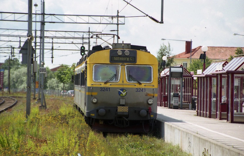 ASEA X14 train in the new Västtrafik-colors standing on the station in Stenungsund, Sweden.